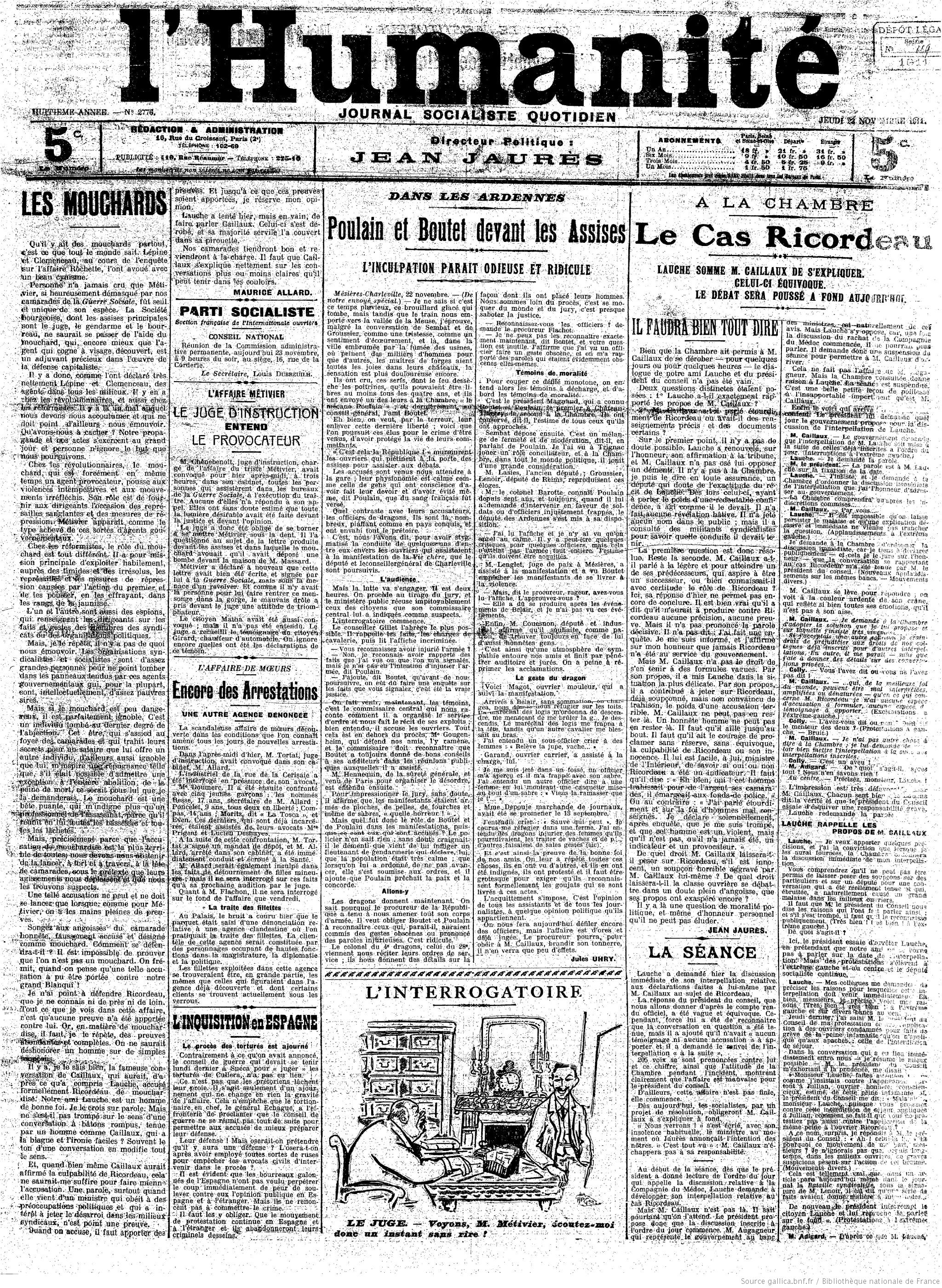 First page of L'Humanité concerning the events around supposed agent provocateurs used during the Draveil-Villeneuve-Saint-Georges strike of 1908. Article by Maurice Allard and Jean Jaurès.